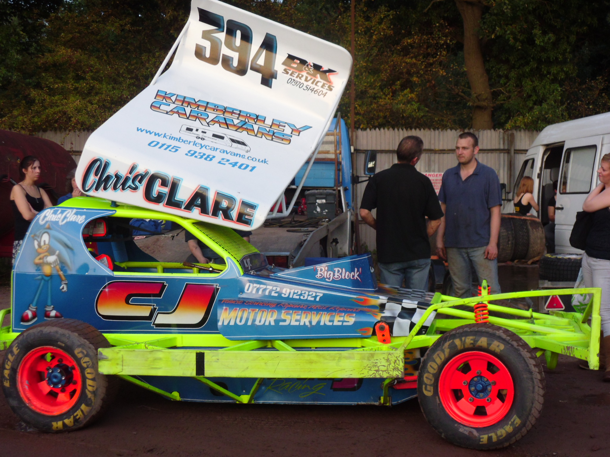 BriSCA F1 Stock Car in the pits at Coventry